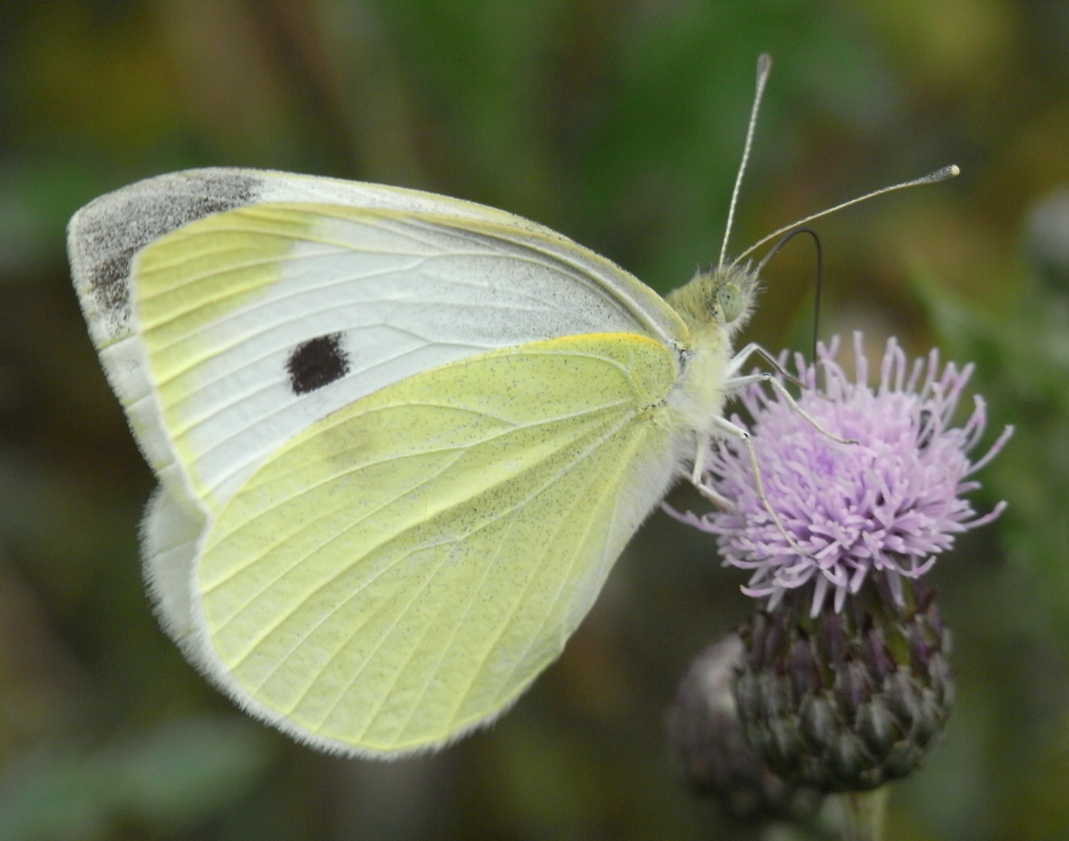 Small White (Pieris rapae) near Hamburg, Germany.